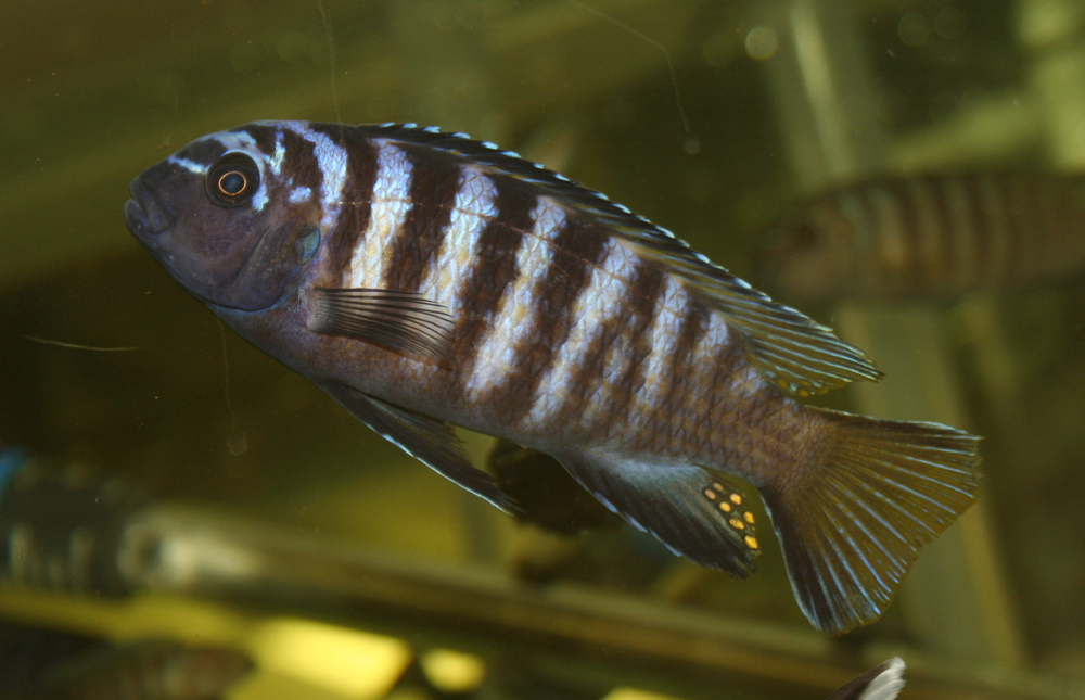 Pseudotropheus elongatus from the waters off Likoma Island, Lake Malawi.